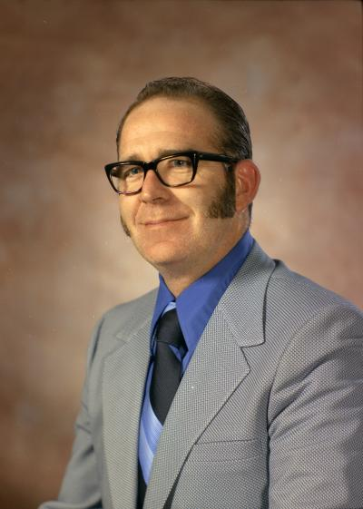 Representative Dale E. Hoggins, 1971